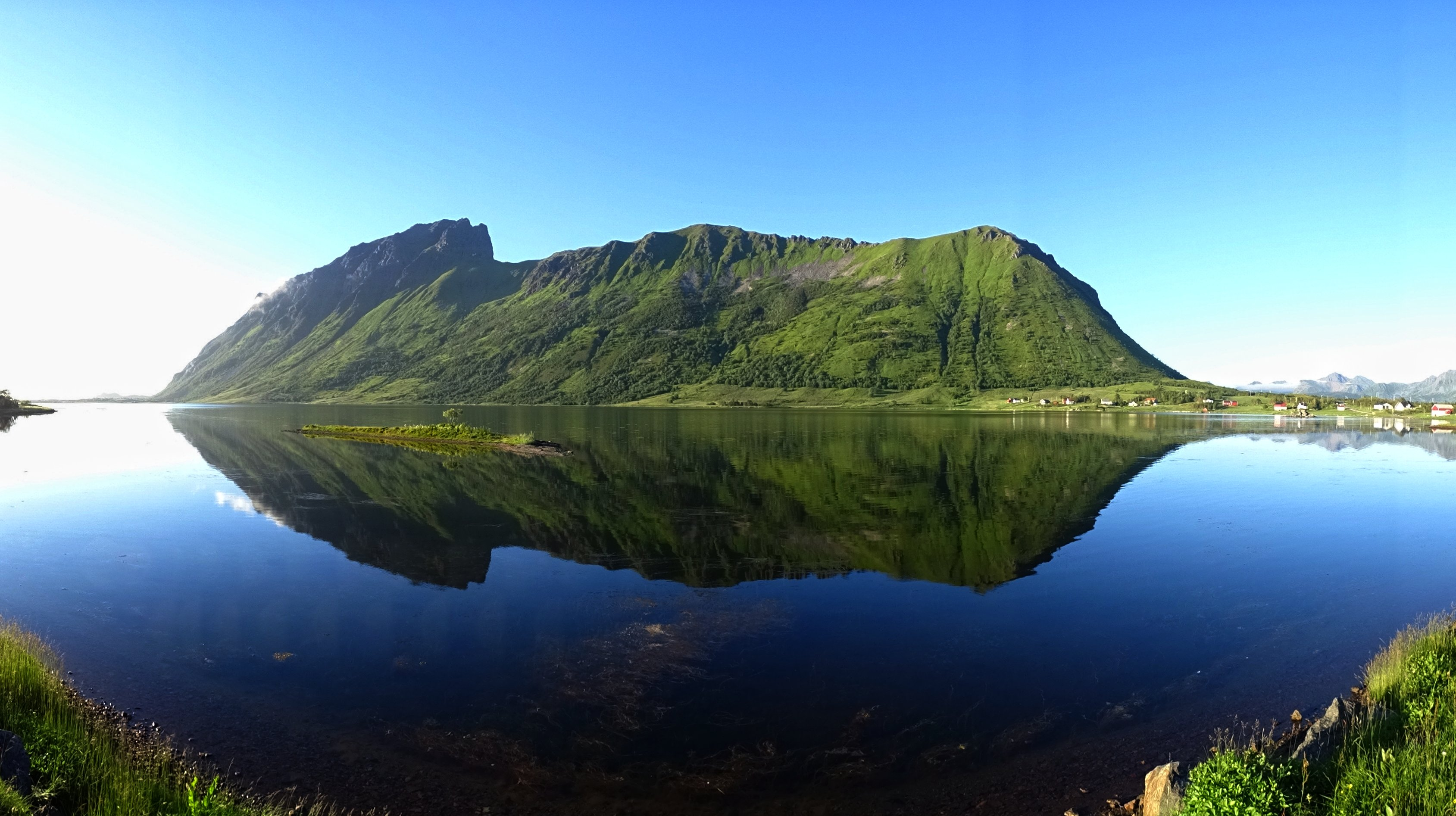 Steirapollen (water body) seen towards the north from the E10 road at Knutstad.